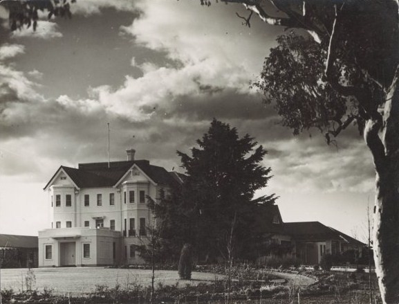 Government House, view from right side, Canberra, 1927.